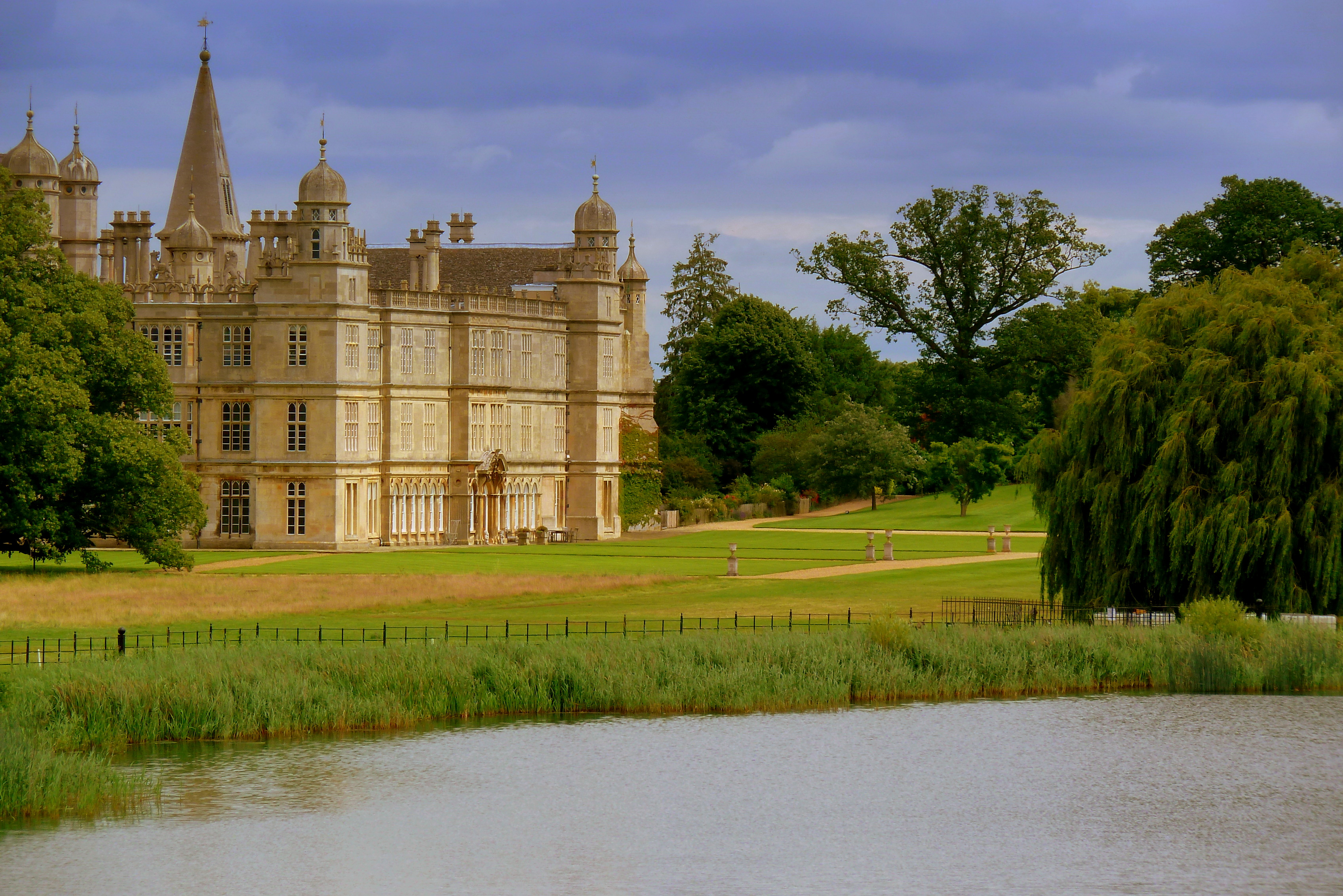 Burghley House